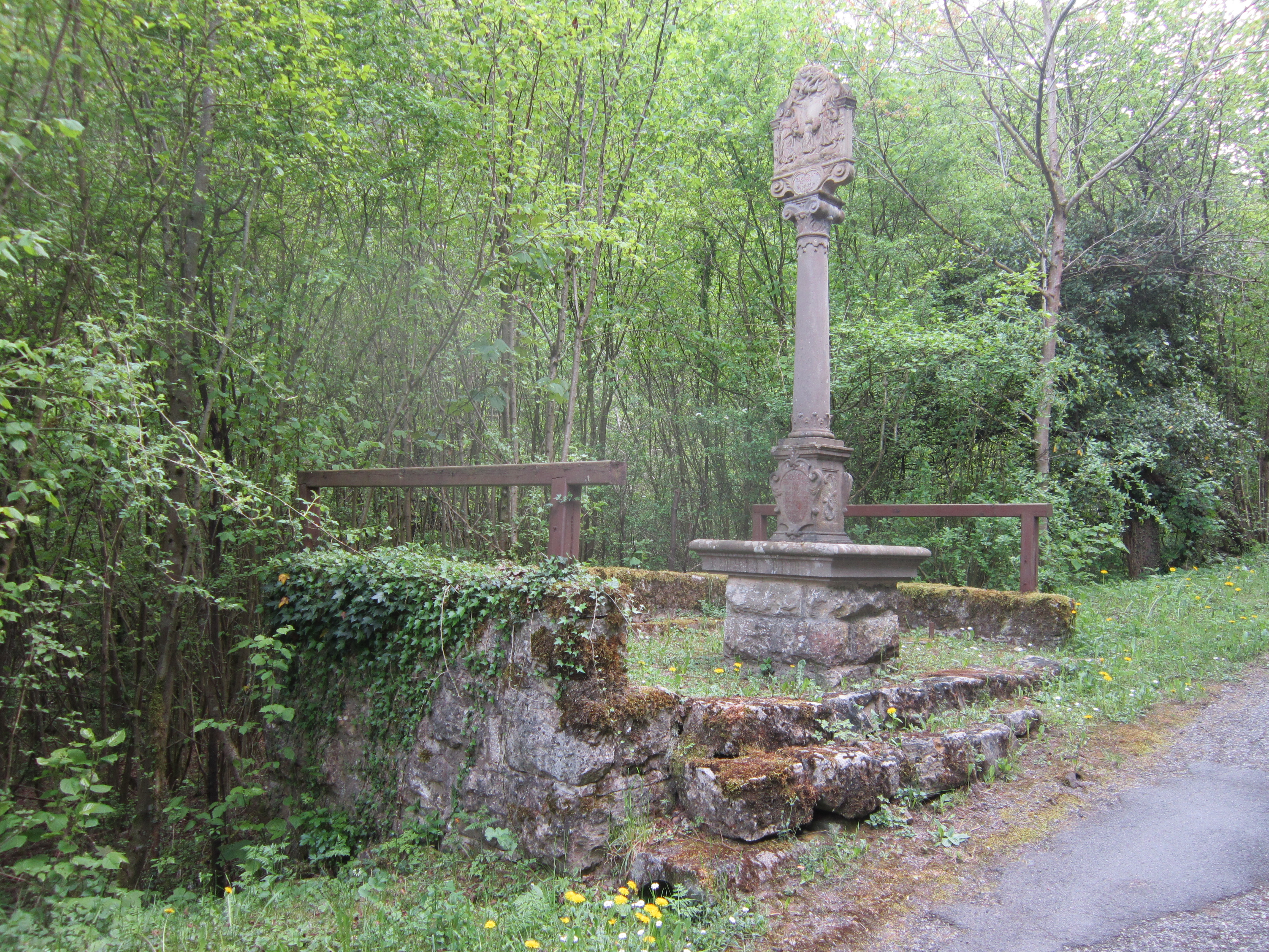 Way side shrine at the Maria Steinthal Chapel in the German town of Hammelburg in Lower Franconia (Bavaria).